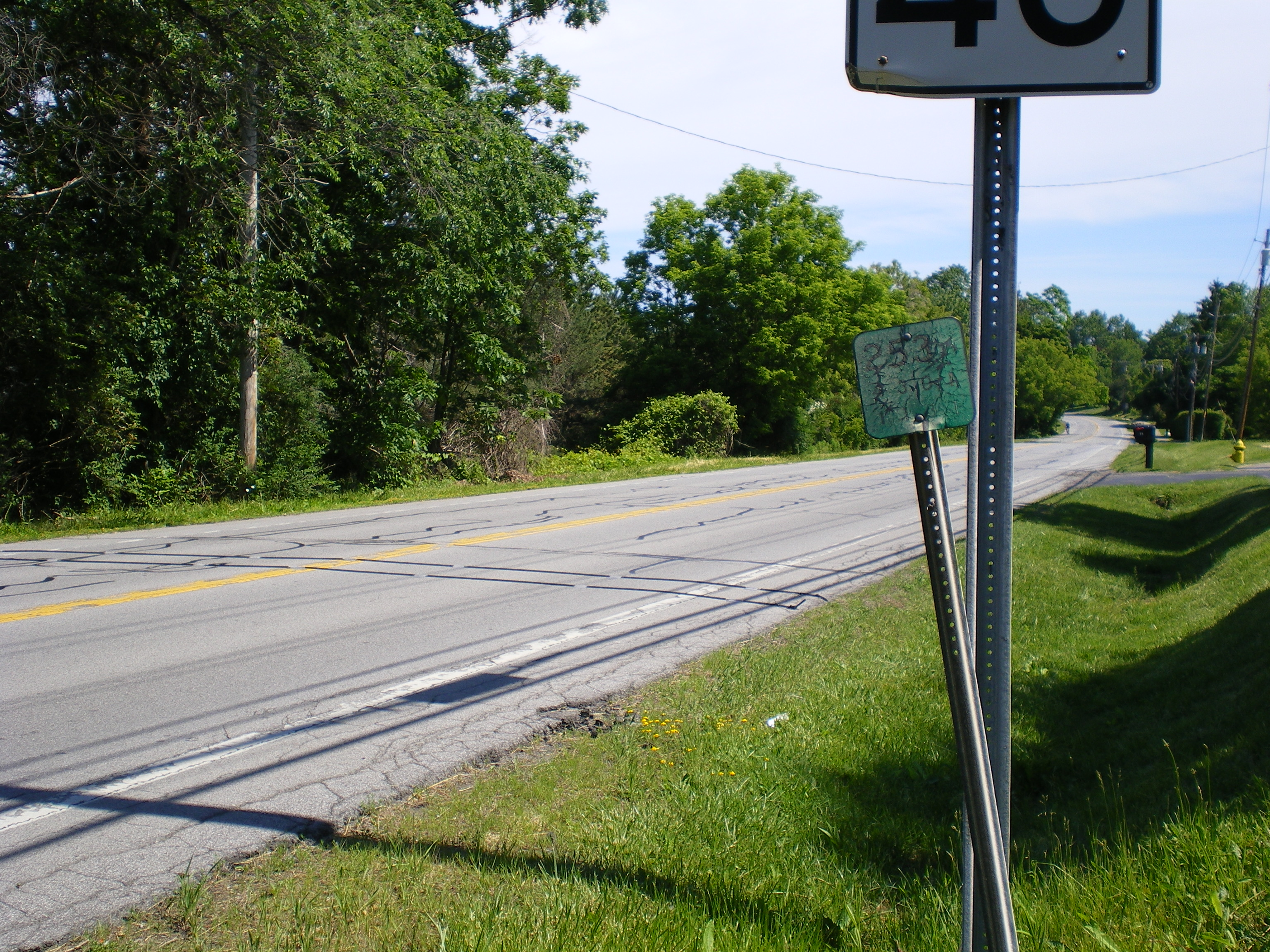 Reference marker for New York State Route 253 along NY 253's former routing on Mendon Center Road (unsigned NY 943C) in the town of Pittsford, just south of the village. In the extreme background is a "Junction NY 64" assembly, as Mendon Center Road meets NY 64 at the top of the hill.